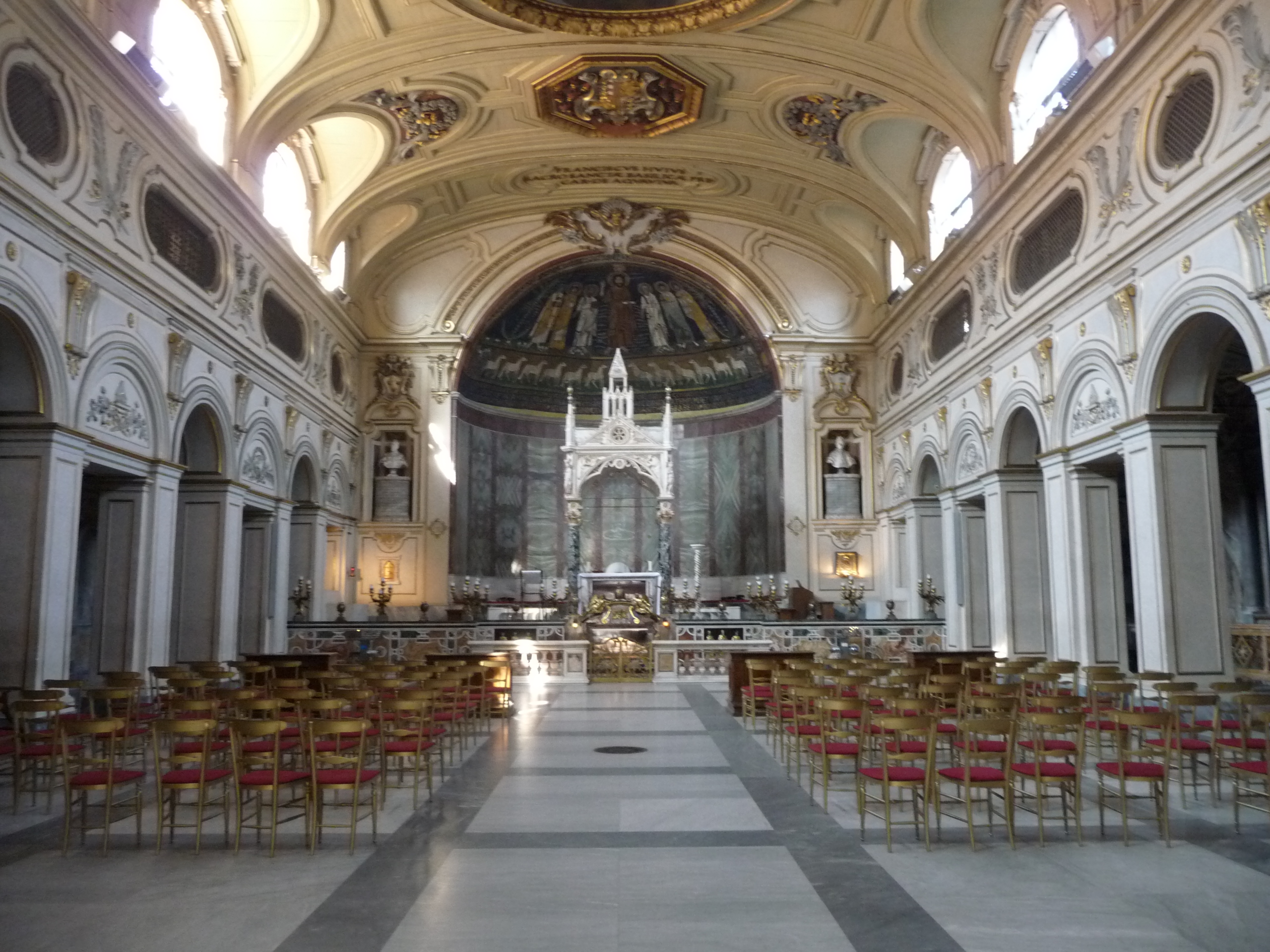 Santa Cecilia in Trastevere, Rome. Interior